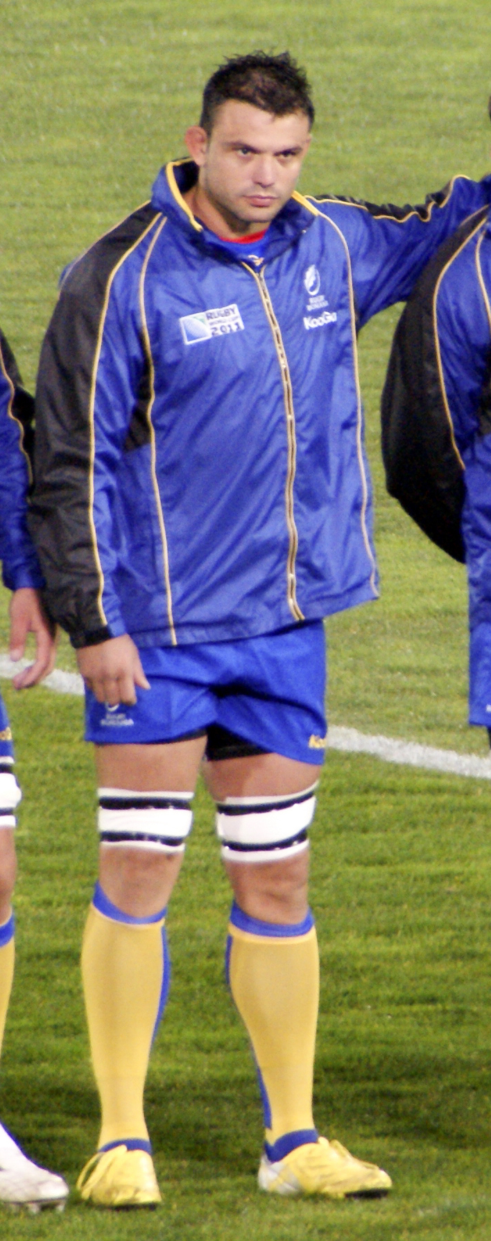 Romanian rugby union player Cristian Petre during 2011 Rugby World Cup against Georgia.